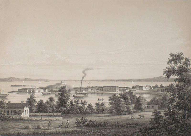 Pictures from the work "Norge fremstillet i Tegninger" from 1848 by Christian Tønsberg. The picture depicts Horten, Vestfold county, Norway.